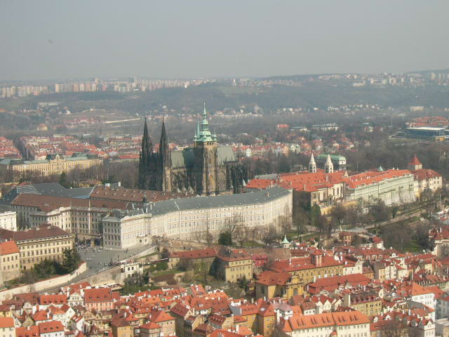 Full view of Prague Castle, Own photograph.